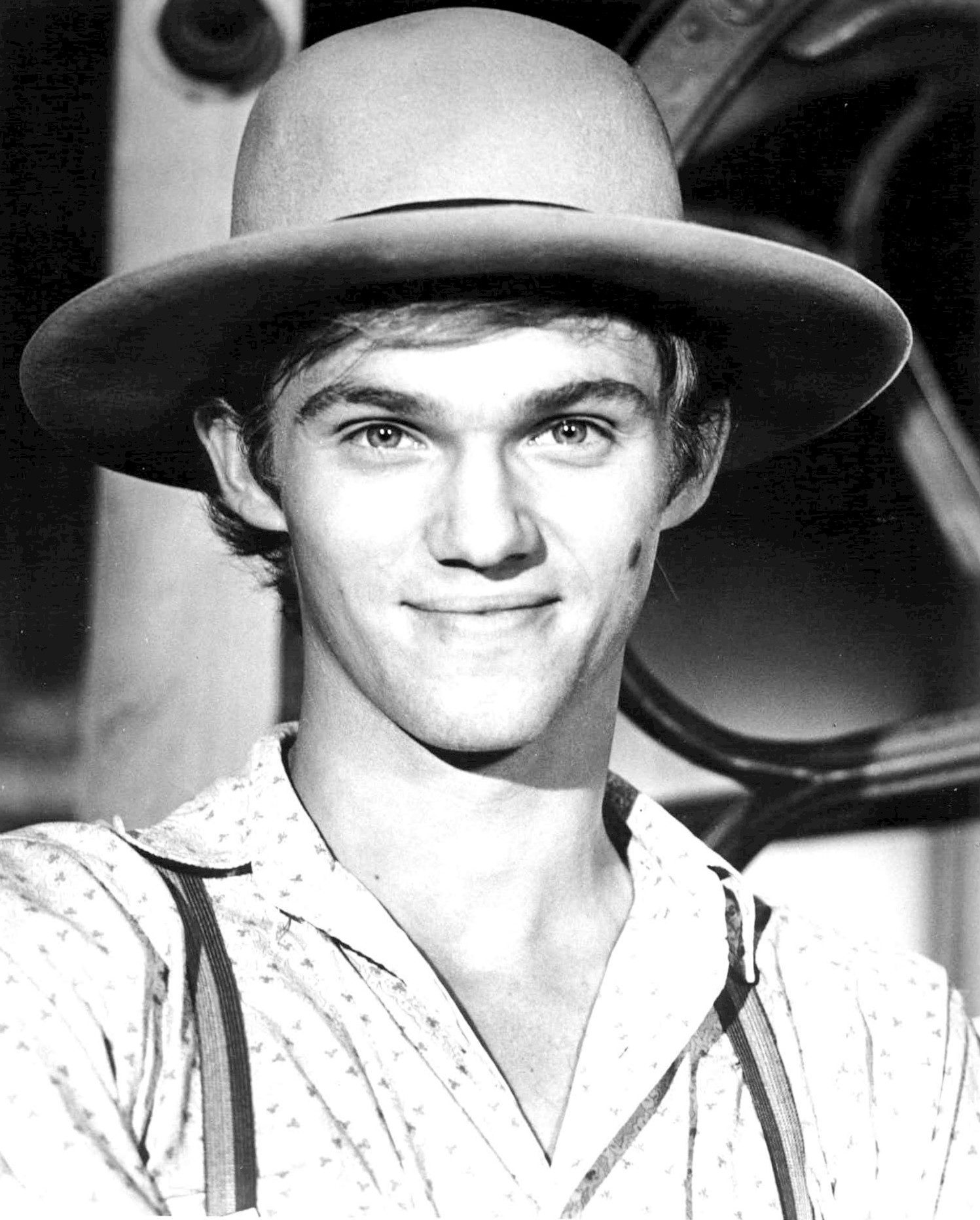 Photo of Richard Thomas as John Boy Walton.